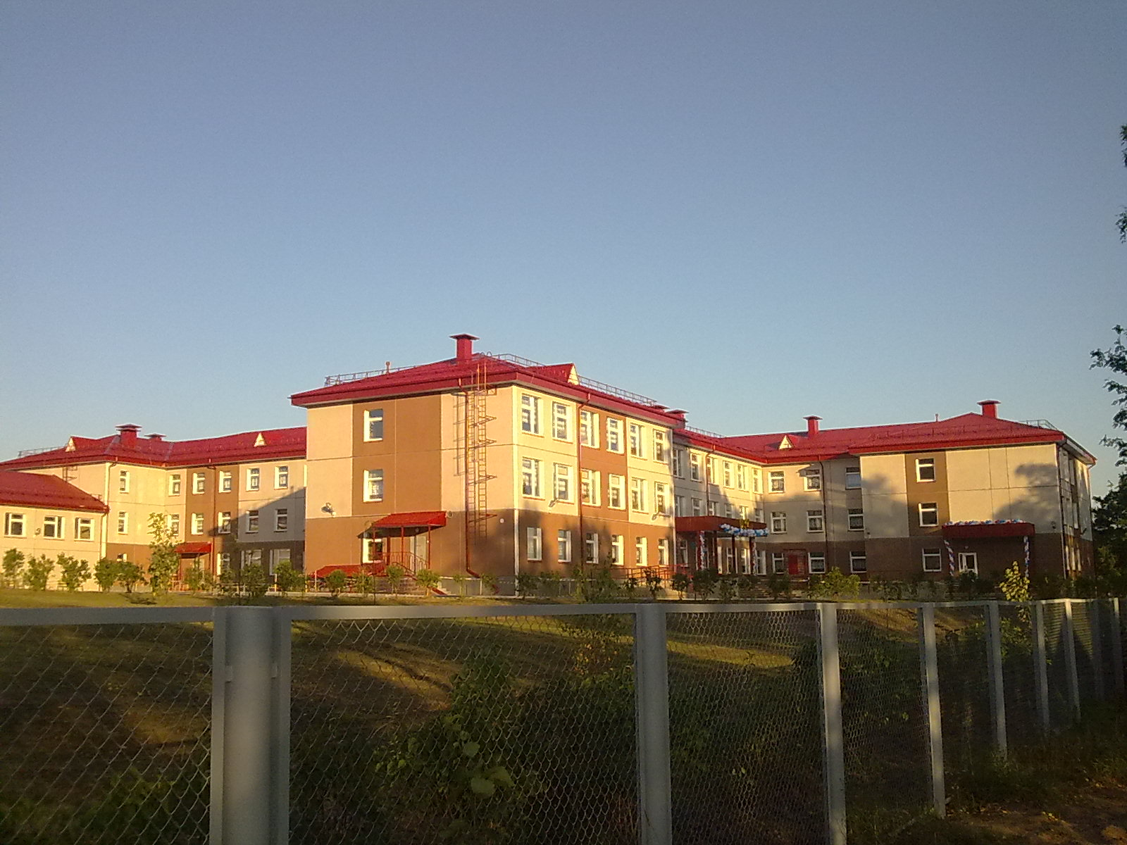 High school # 13 in Vyborg, Russia, opened in 2009 year.